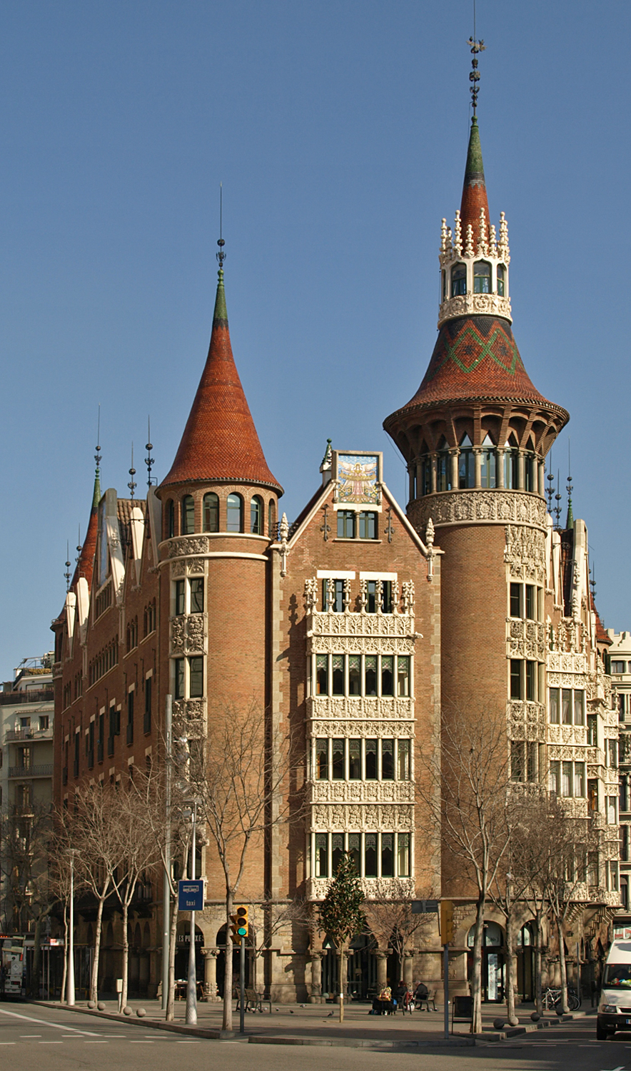 Casa de les Punxes - Catalan Modernisme (Josep Puig i Cadafalch, 1905)